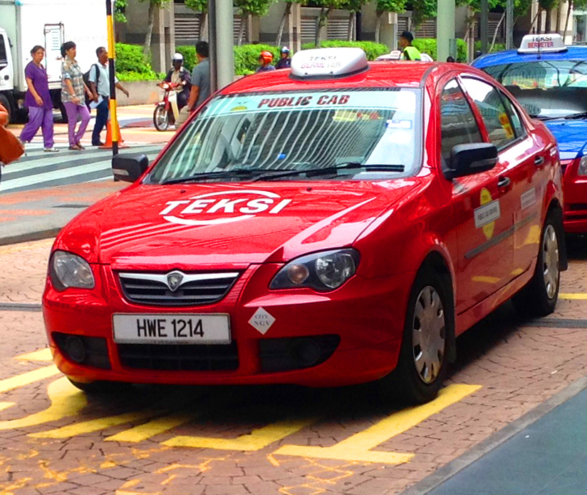 Typical Taxi in Kuala Lumpur